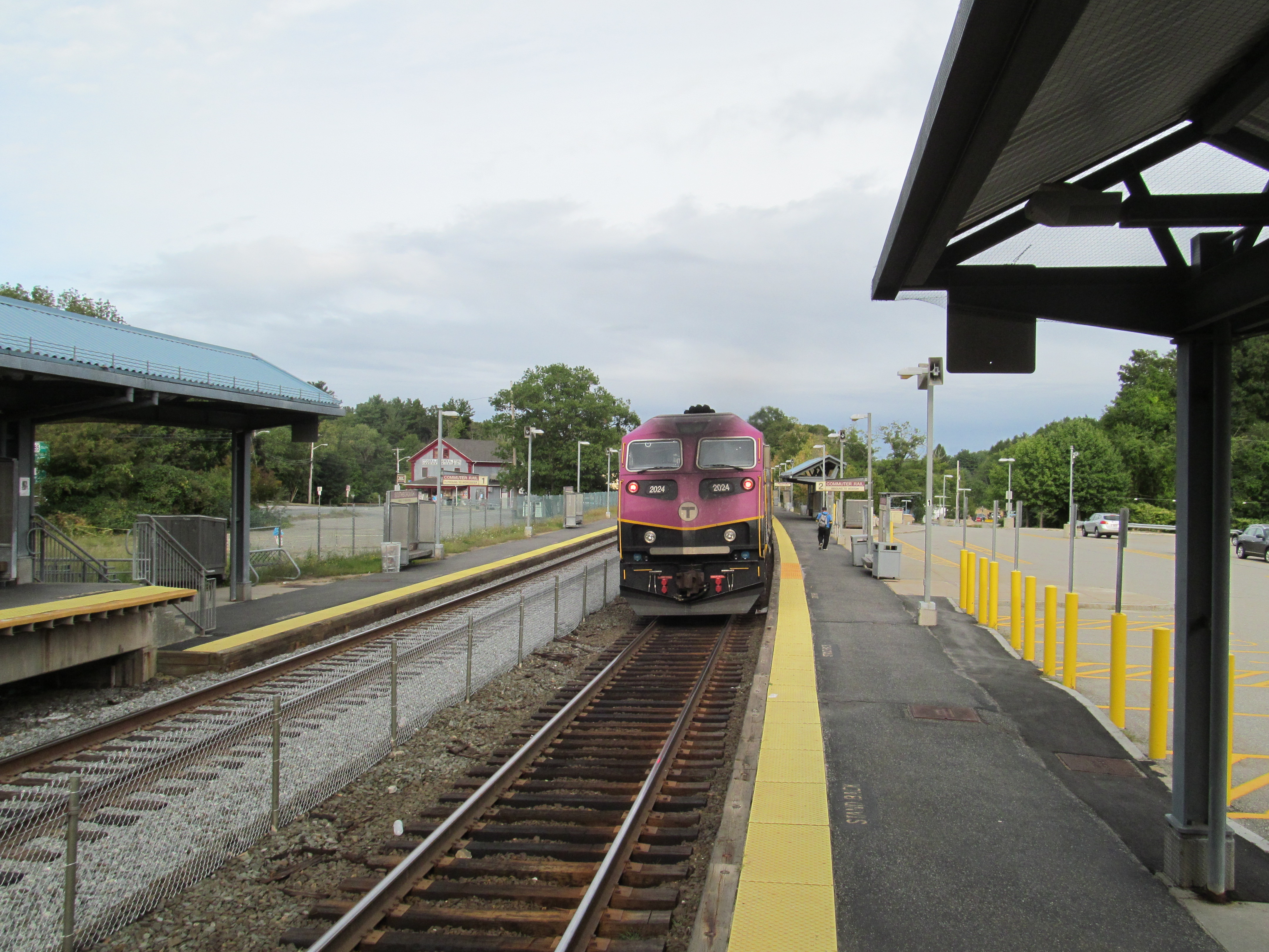 MBTA 2024 pushes an inbound train through Southborough station in September 2016